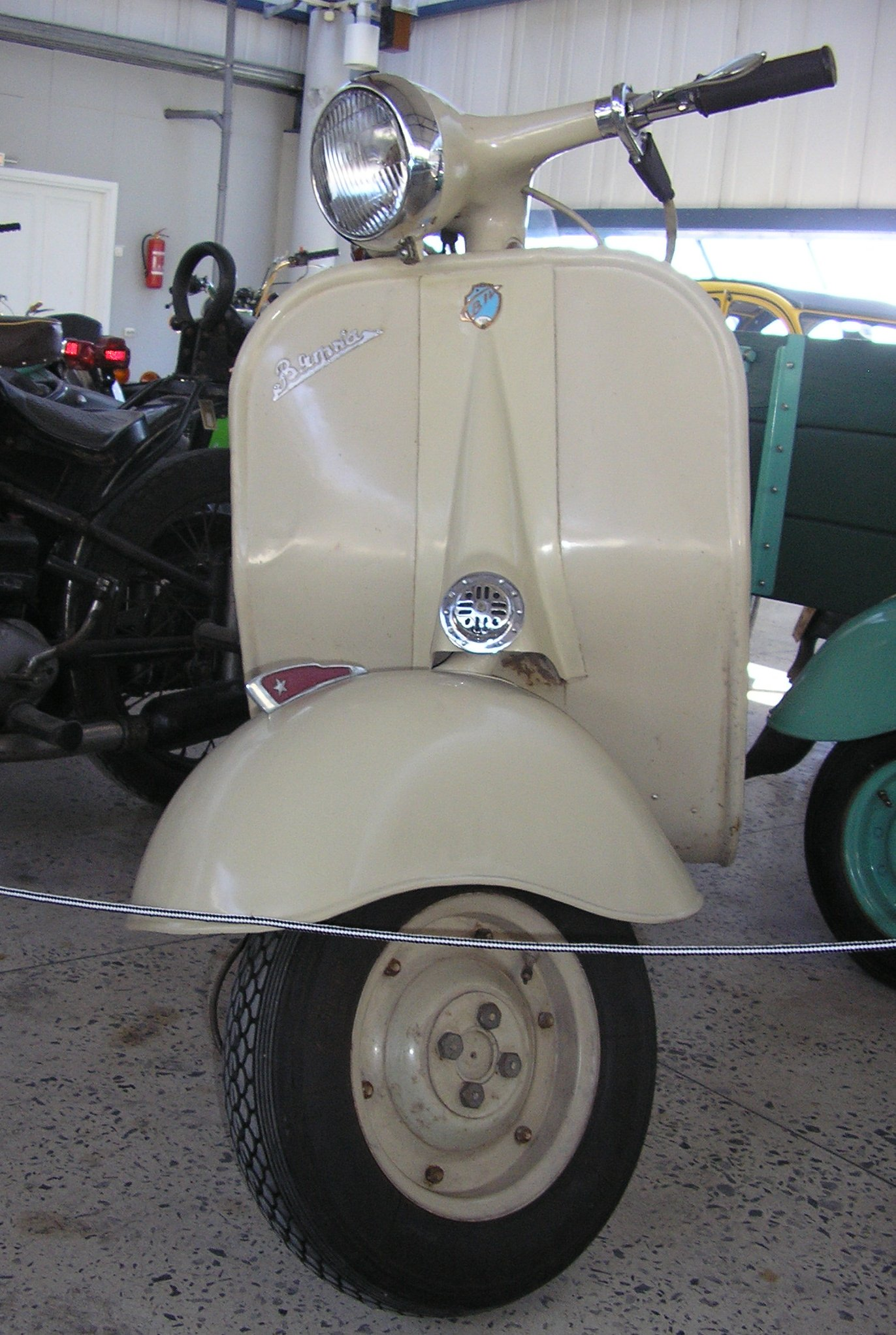 A 1960 Vjatka-VP150 scooter. License-built USSR version of the Vespa 150GL. Built between 1957 and 1961 (I think). Single cylinder, two stroke 148 cc engine giving 5.5 hp and a top speed of 70 km/h.